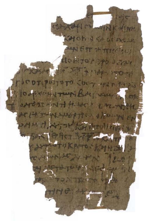 fragment of the text of Apocalypse 1:4-7